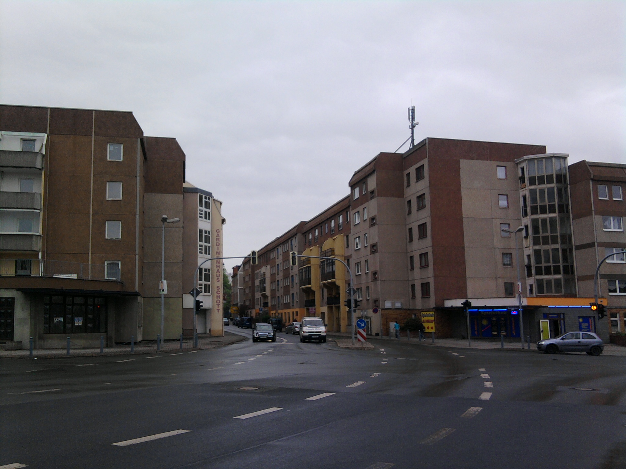 Square in Crimmitschau near Zwickau in Saxony